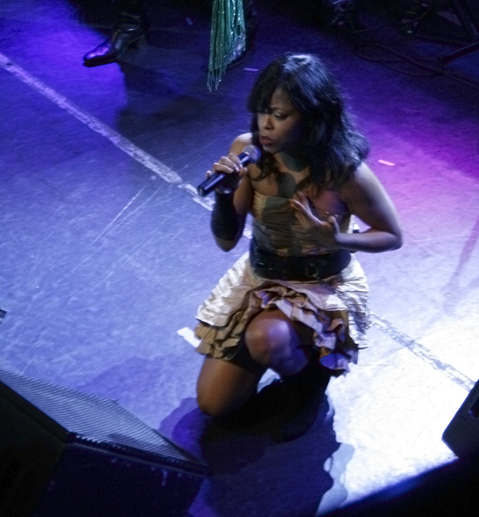 The Brand New Heavies; concert at the jazz club Porgy & Bess in Vienna